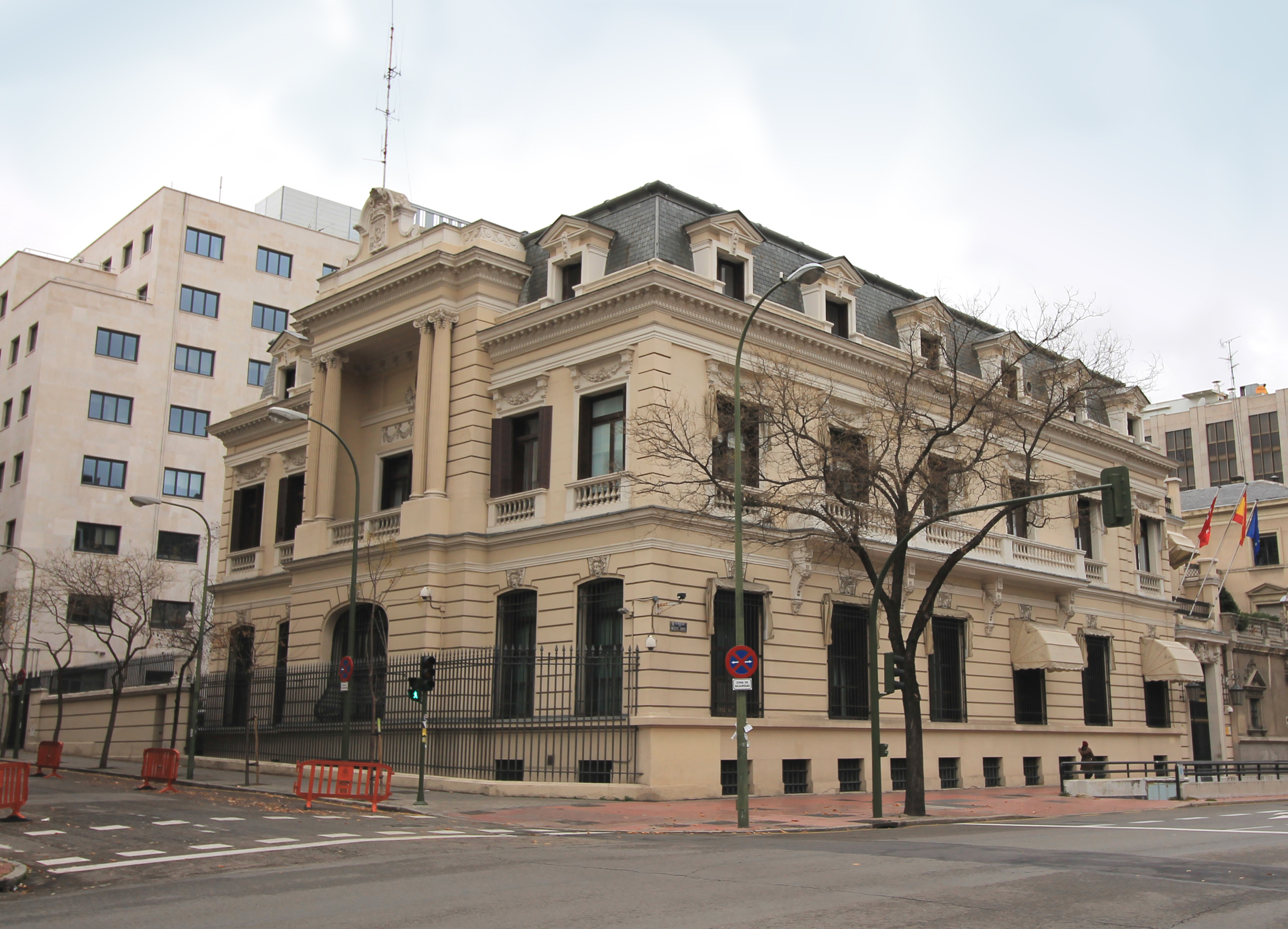 Façade of the Mansion of the Marquises of Borghetto in Madrid (Spain).